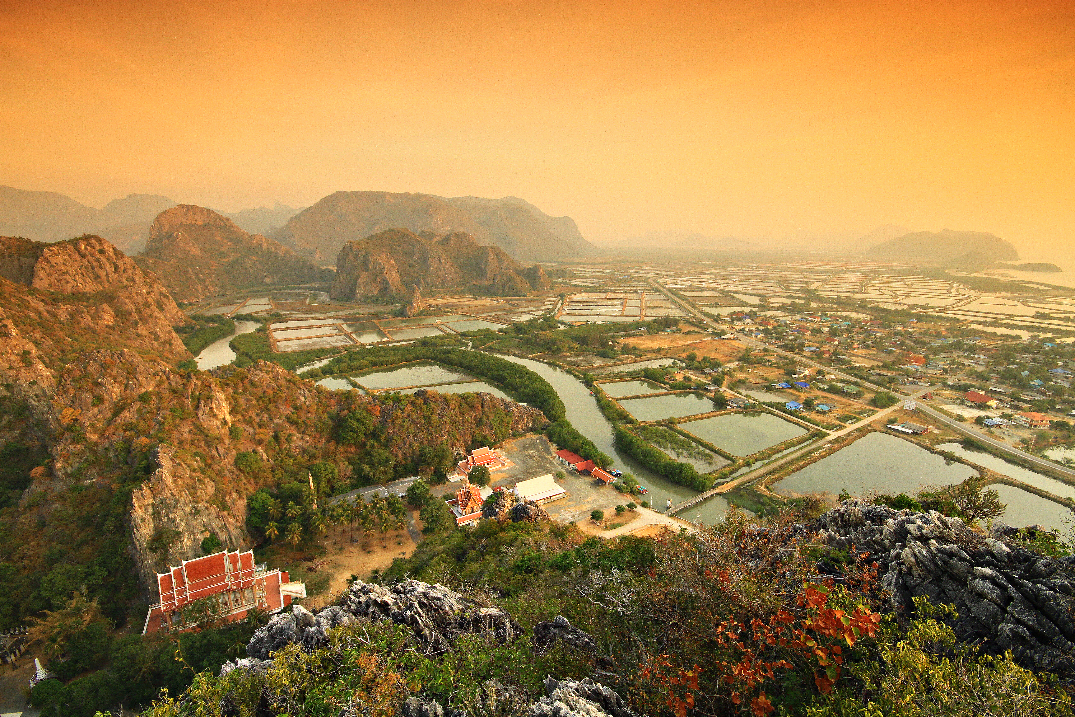 Khao Sam Roi Yot National Park Prachuap Khiri Khan Thailand Khao Sam Roi Yot means "mountain with 300 peaks". The limestone hills are a subrange of the Tenasserim Hills that arise at the shore of the Gulf of Thailand, with the highest elevation being Khao Krachom at 605 m. Between the hills are freshwater marshes. Several of these marshes were converted into shrimp farms, as only 36 km2 of the total 69 km2 of marshes are part of the national park. A portion, 18 km2, of these marshes are scheduled to be declared a Ramsar site.